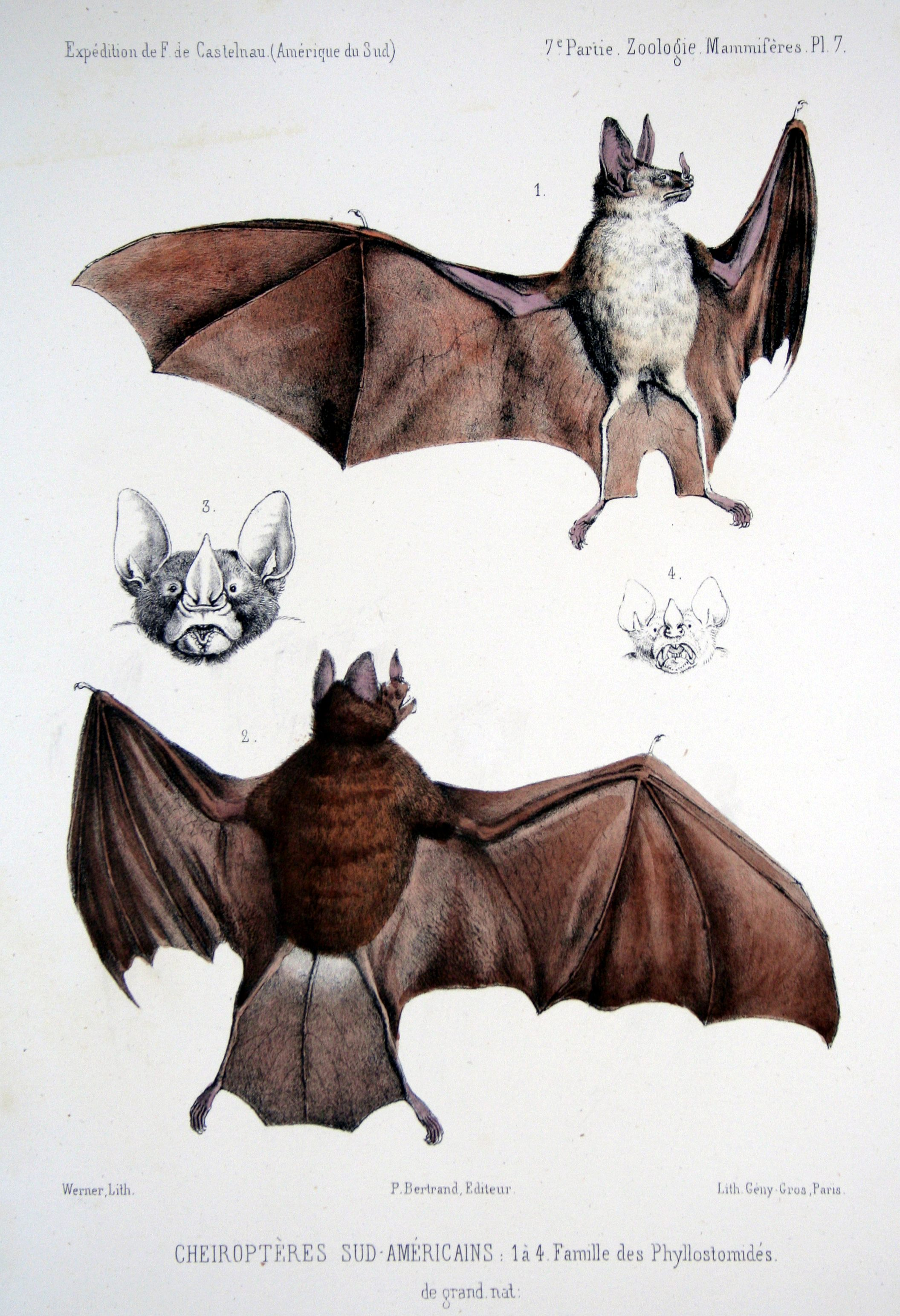 1-4: Phyllostomidae spp.